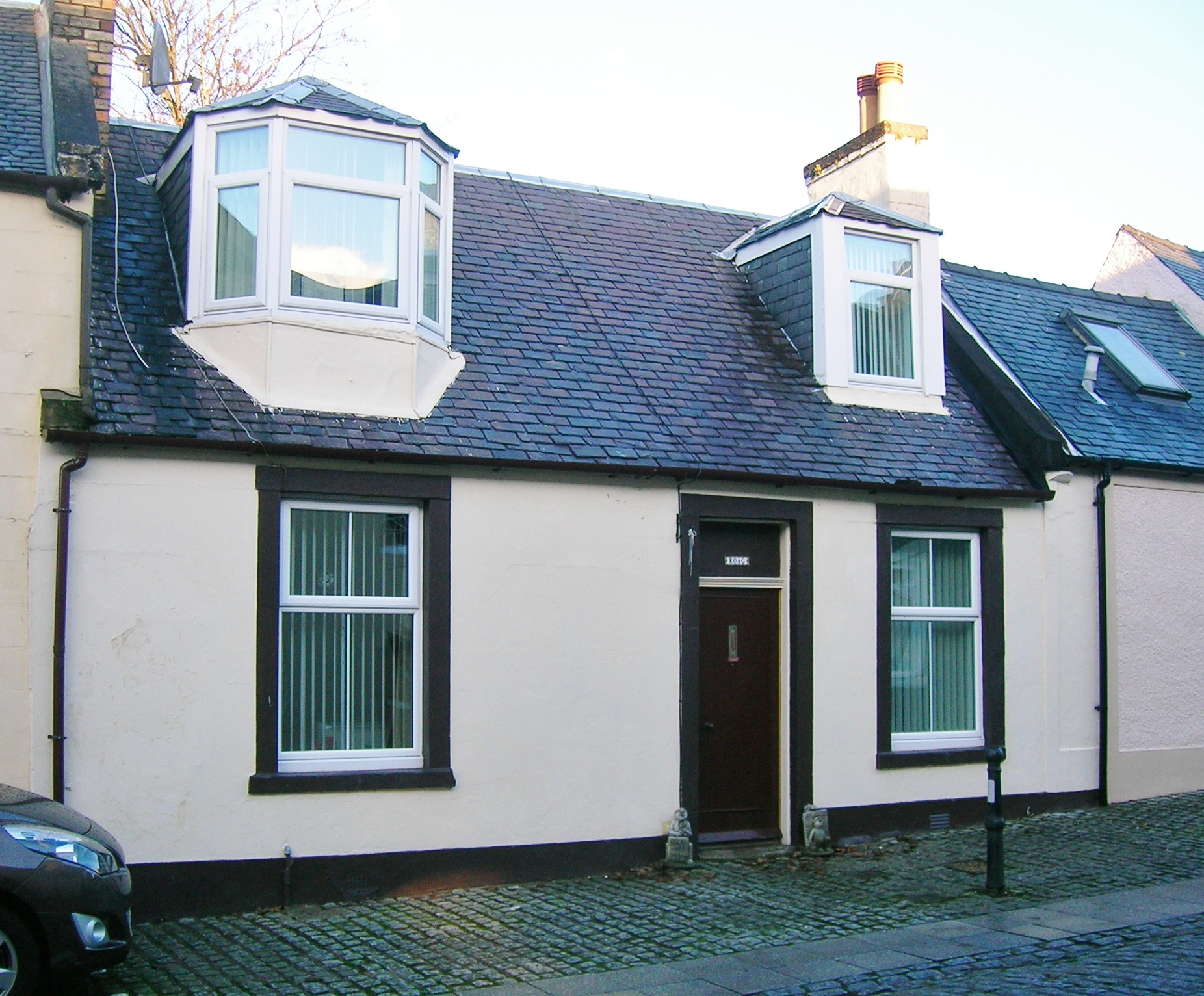 Jean Gardner's house, Seagate, Irvine, North Ayrshire, Scotland.